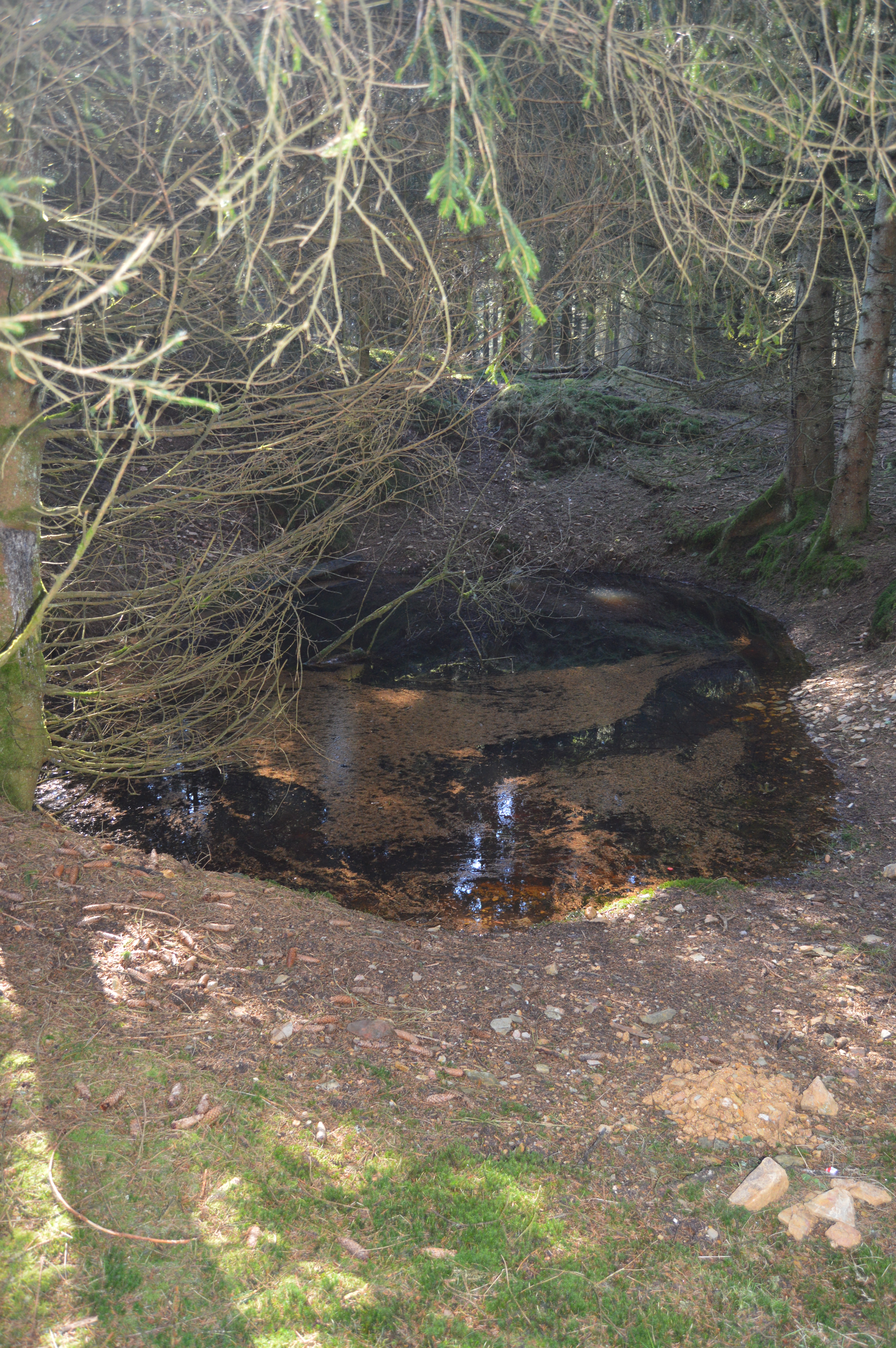 The Trou des Massotais ("Leprechaun Hole"), on the Plateau des Tailles in Belgium, an old gold mine digged by Celts